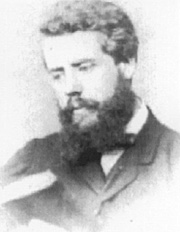 JM Carrick